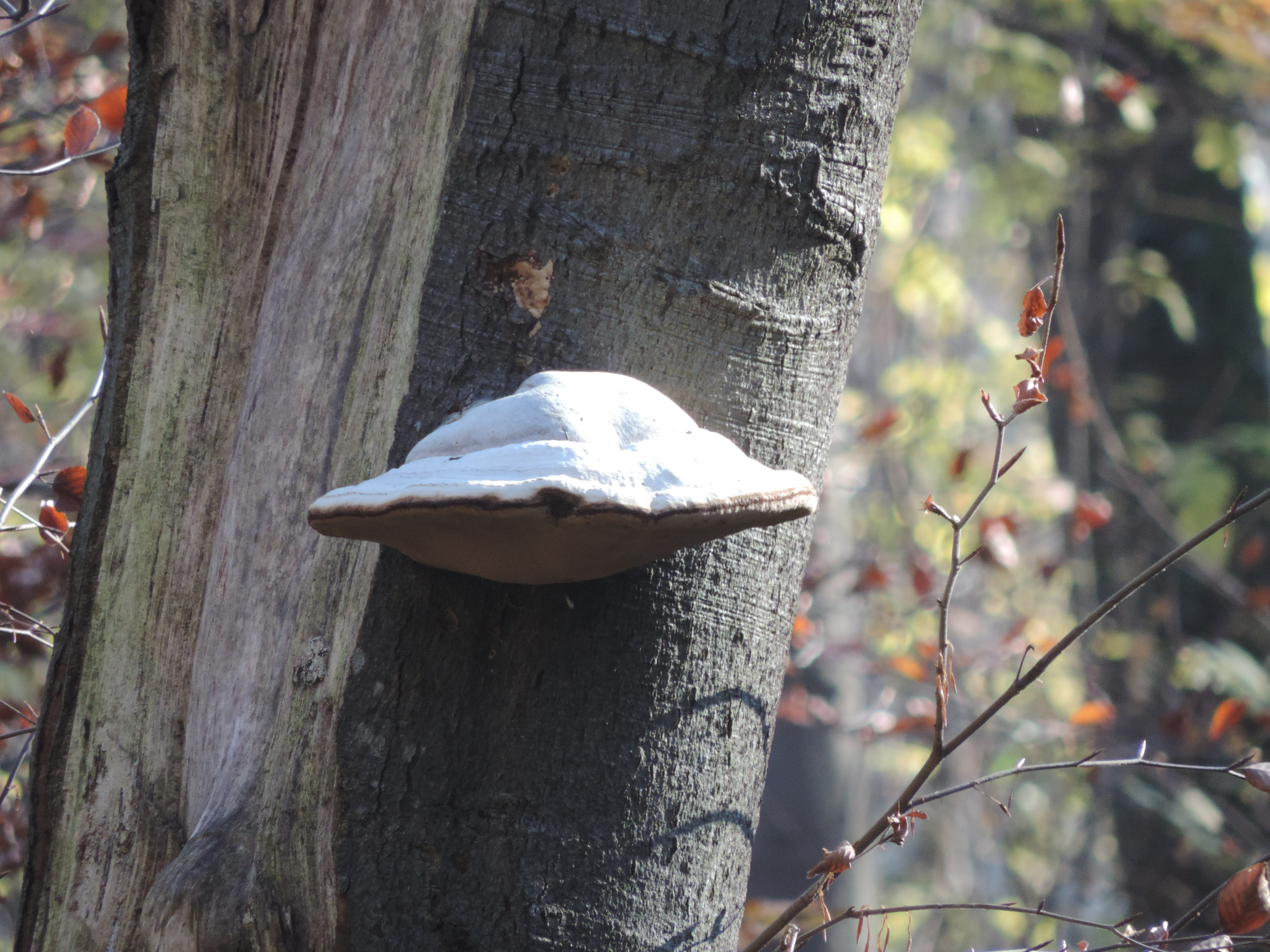 Fomes fomentarius is a tough perennial polypore that usually becomes hoof-shaped with age; it is found on standing and fallen hardwoods. Its woody upper surface develops grayish zones, and its brown pore surface features tiny round pores